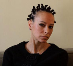 Malika Saada Saar is a human rights activist, founder of The Rebecca Project, and most currently is Google's Senior Counsel on Civil and Human Rights.